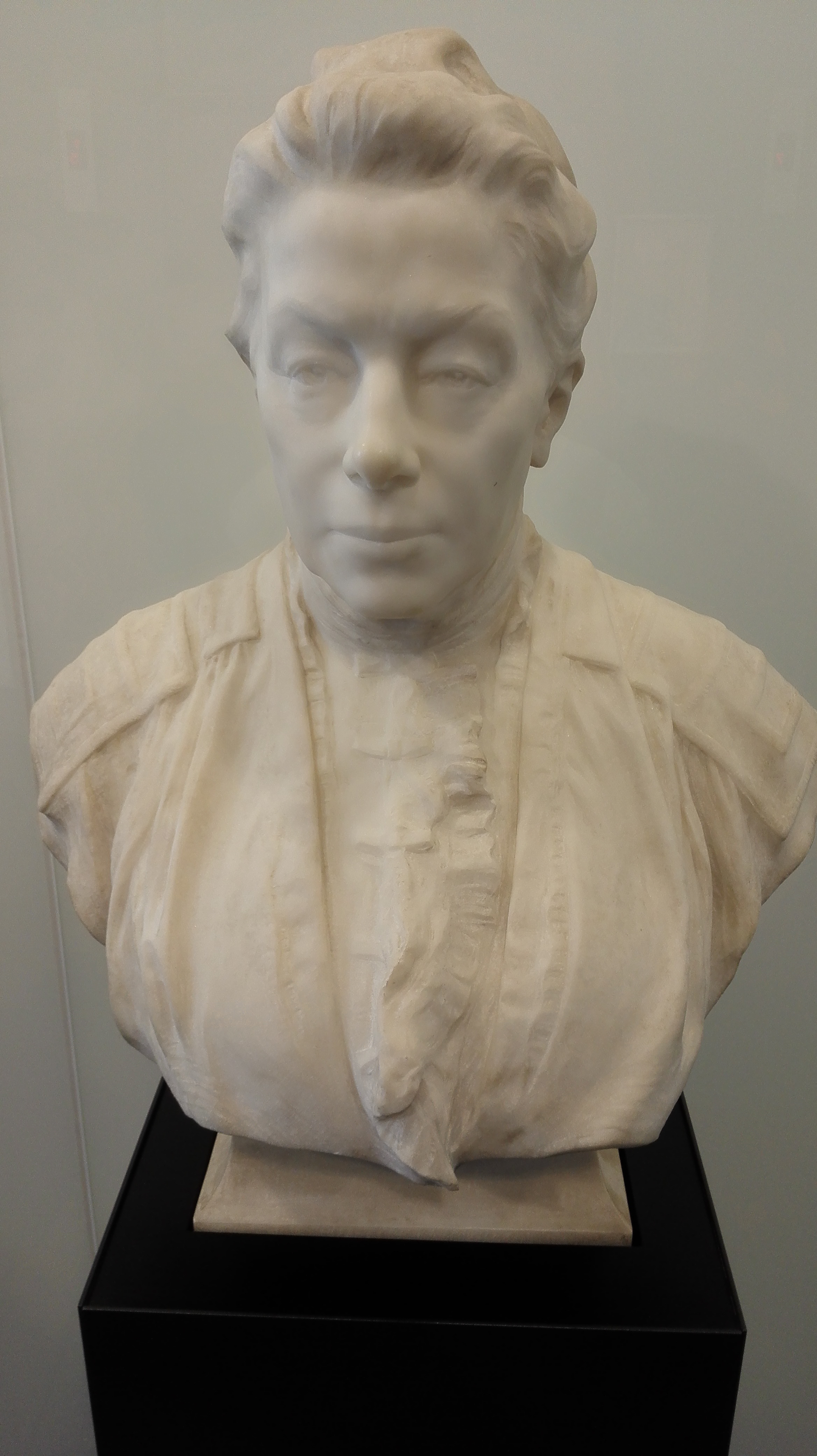 Marble bust of Eliza Rowden Hall (1847-1916). Gift of Art Gallery of New South Wales. Sculpture by Edgar Bertram Mackennal